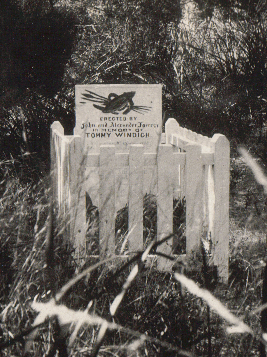 Grave of Tommy Windich, Esperance, Western Australia. (Cropped by gobeirne).